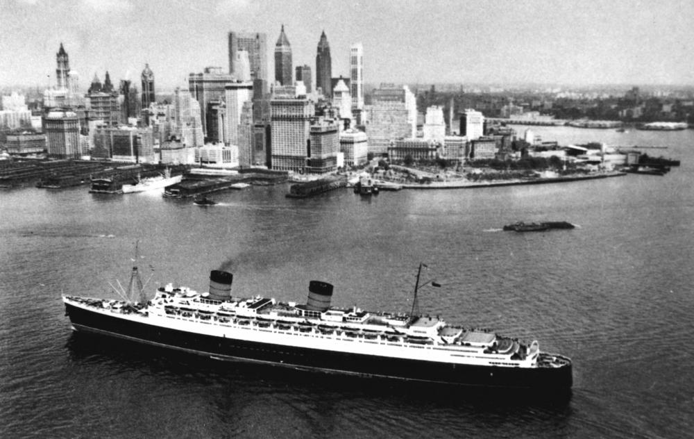 RMS Queen Elizabeth (ship) 83,673 tons. Speed 28 1/2 knots. Length 1,031 feet.